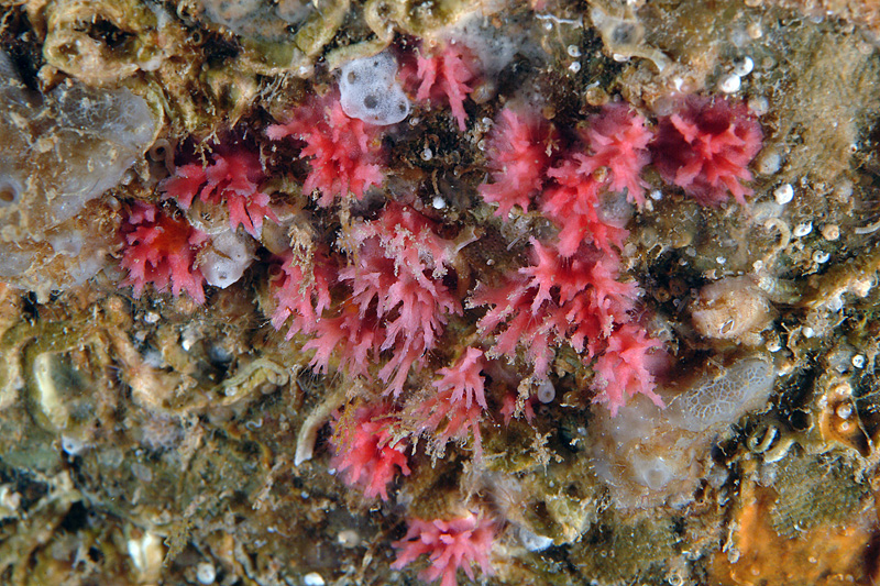 Miniacina miniacea photographed near Tuscany coasts. Photo by Stefano Guerrieri.